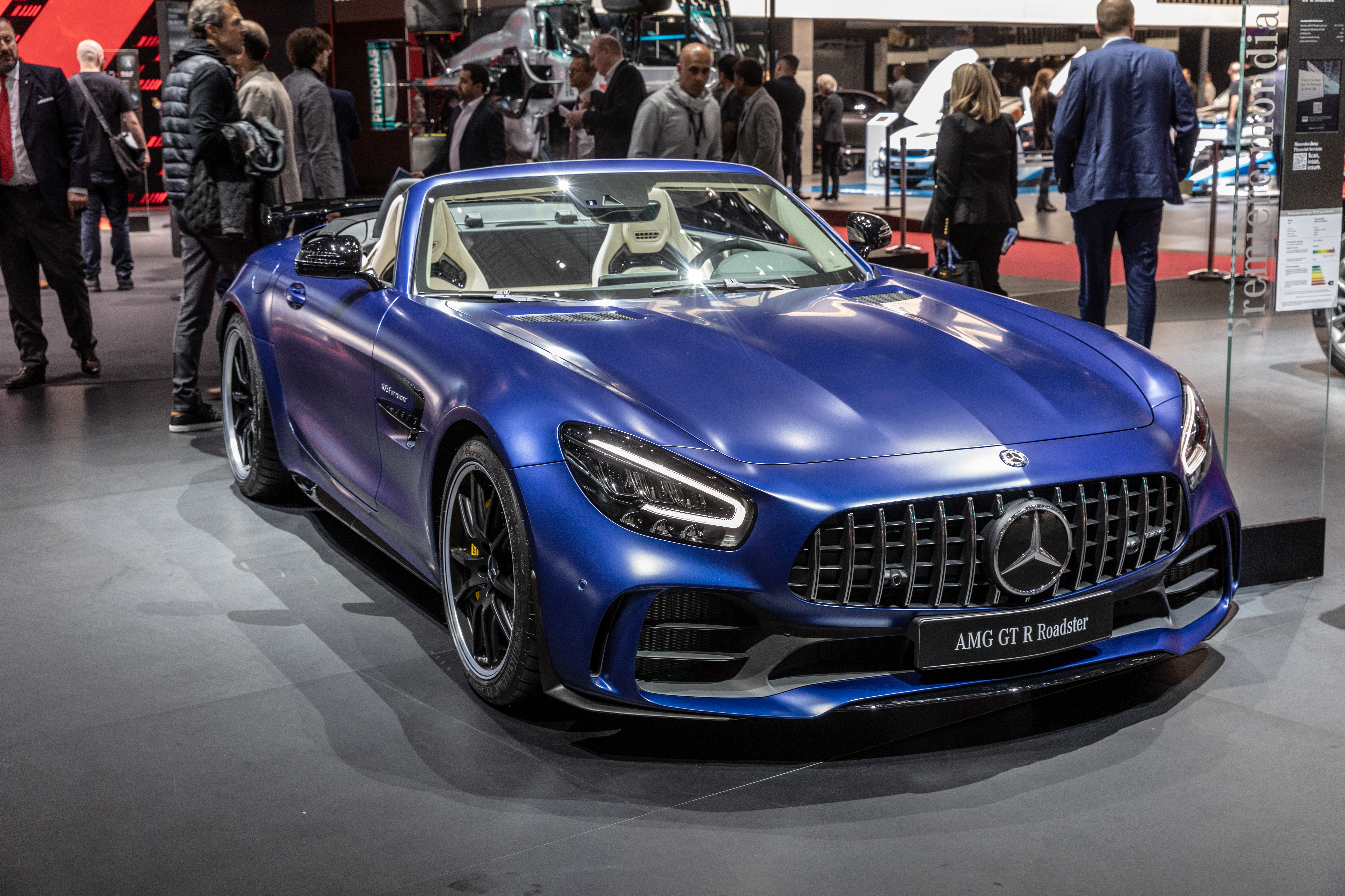 Mercedes-AMG GT R Roadster at Geneva International Motor Show 2019, Le Grand-Saconnex